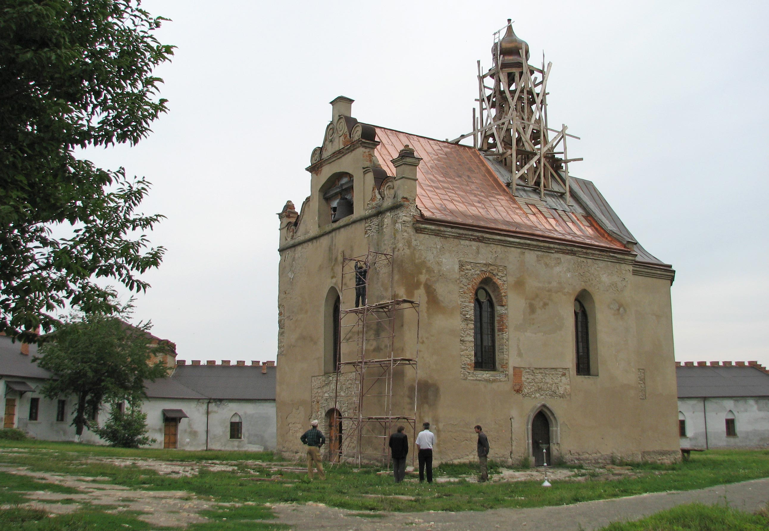 Orthodox church under renovation inside the Medzhybizh fortress in Ukraine.